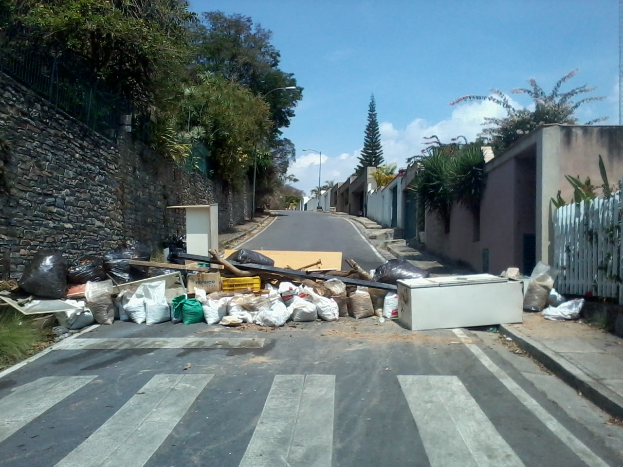 A barricade built by protestors blocking a street near the brigadier general Ángel Vivas' house.